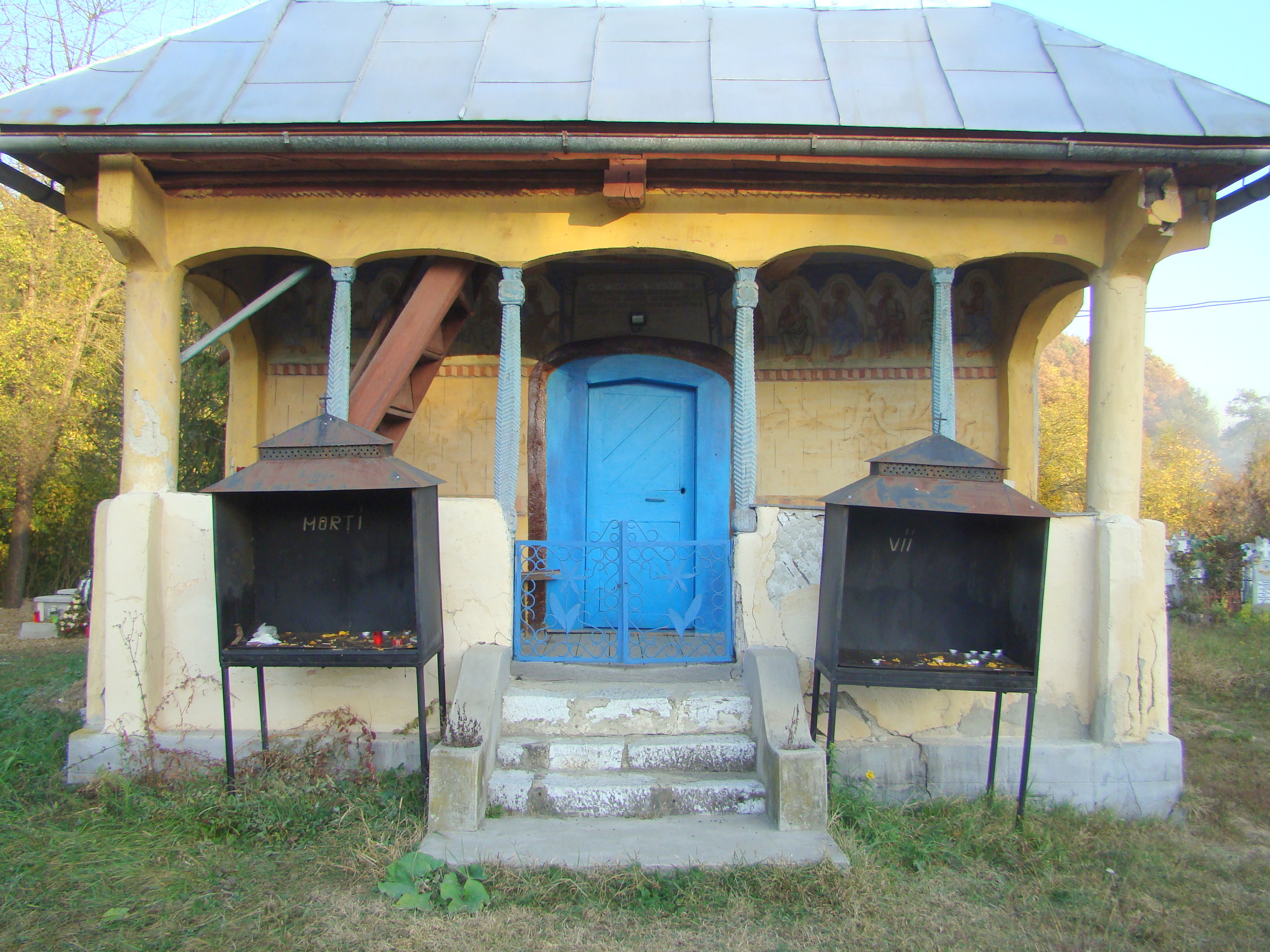 Wooden church in Băzăvani, Gorj county, Romania